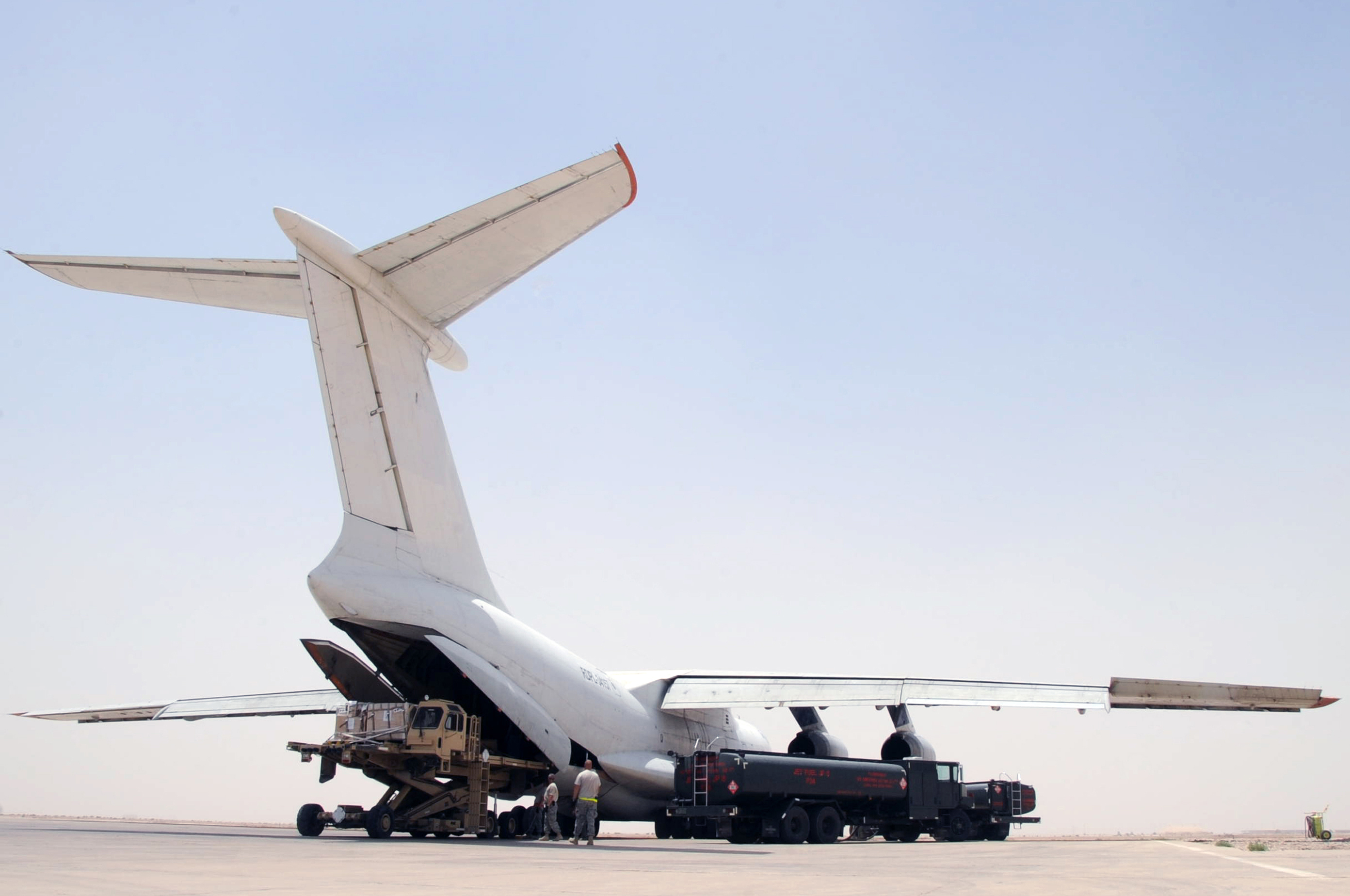 An Il-76 in Iraq